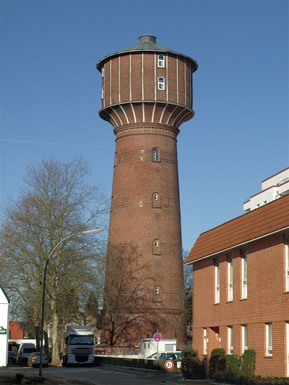 Elmshorn , Germany (Slesvic-Holstein): Watertower, photo 1995